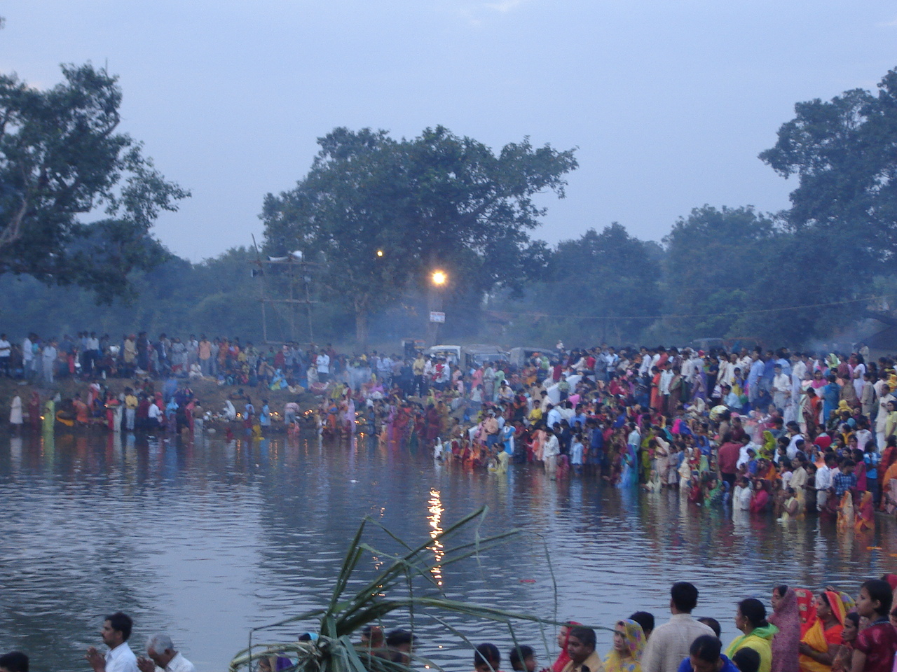 Bikhpur-Bhagwanpur is a small village Located some 17 km South to Siwan District of Bihar.